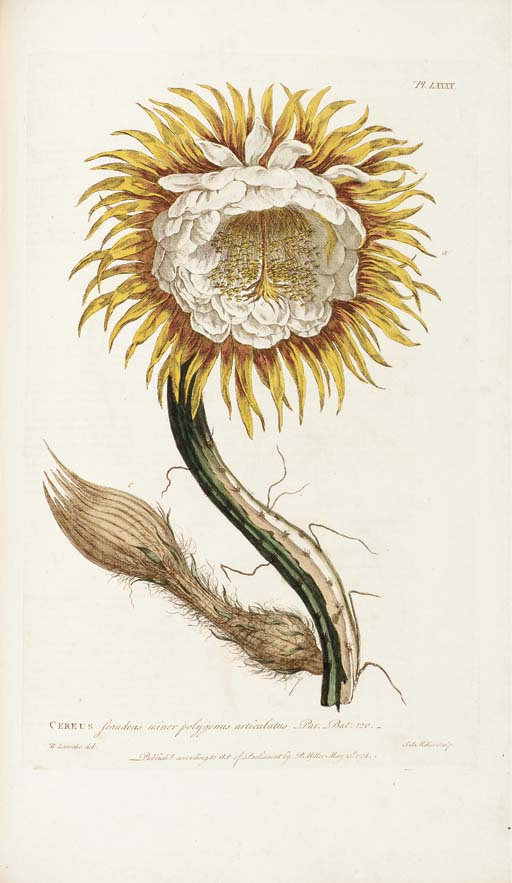 Cereus scandens Salm-Dyck, now a synonym of Hylocereus lemairei (Hook.) Britton & Rose - painted by Richard Lancake for Philip Miller's Figures of the most Beautiful, Useful, and Uncommon Plants described in The Gardeners' Dictionary